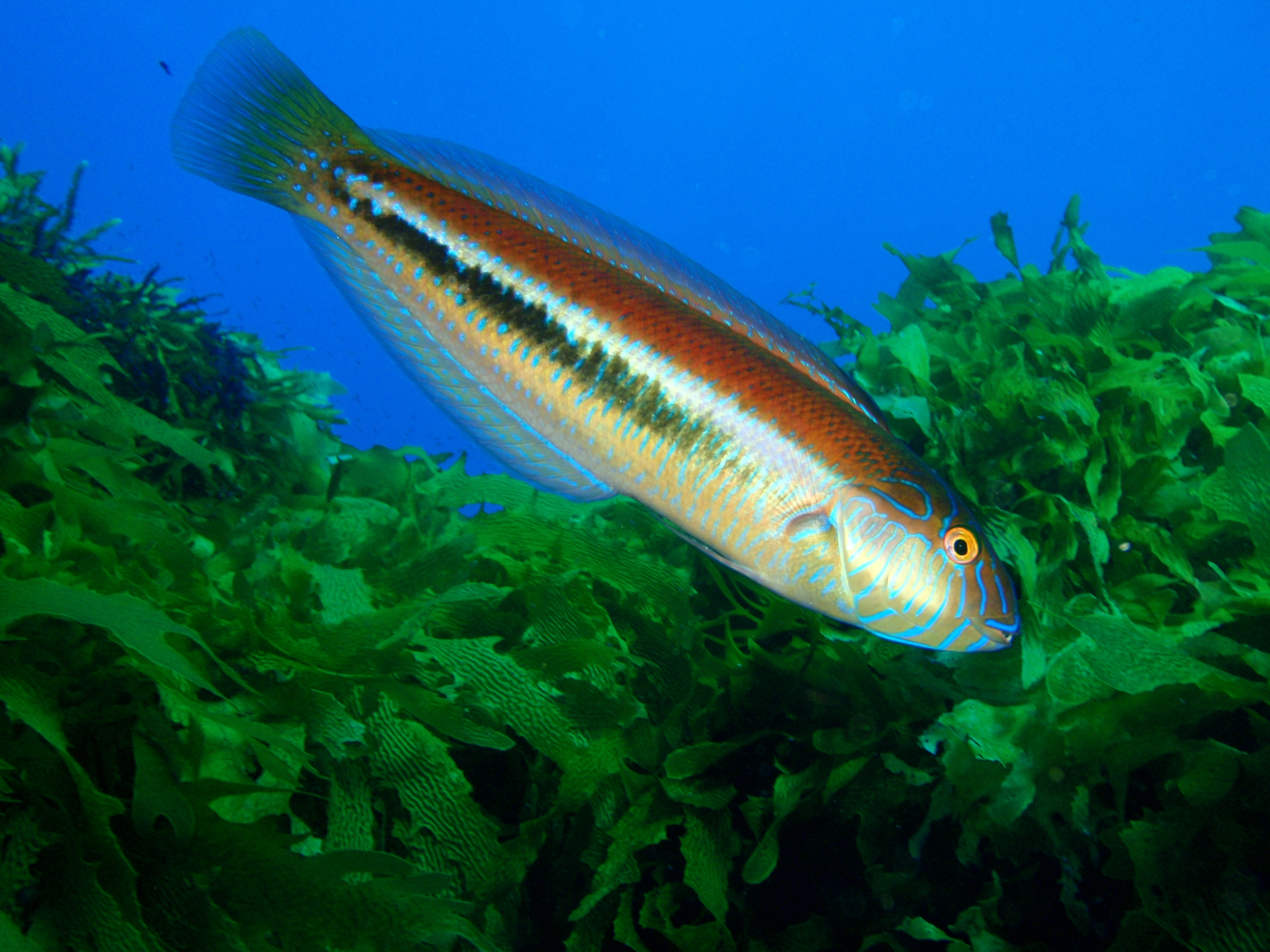 Western Maori wrasse Ophthalmolepis lineolata at Breaksea Cove in King George Sound, Western Australia